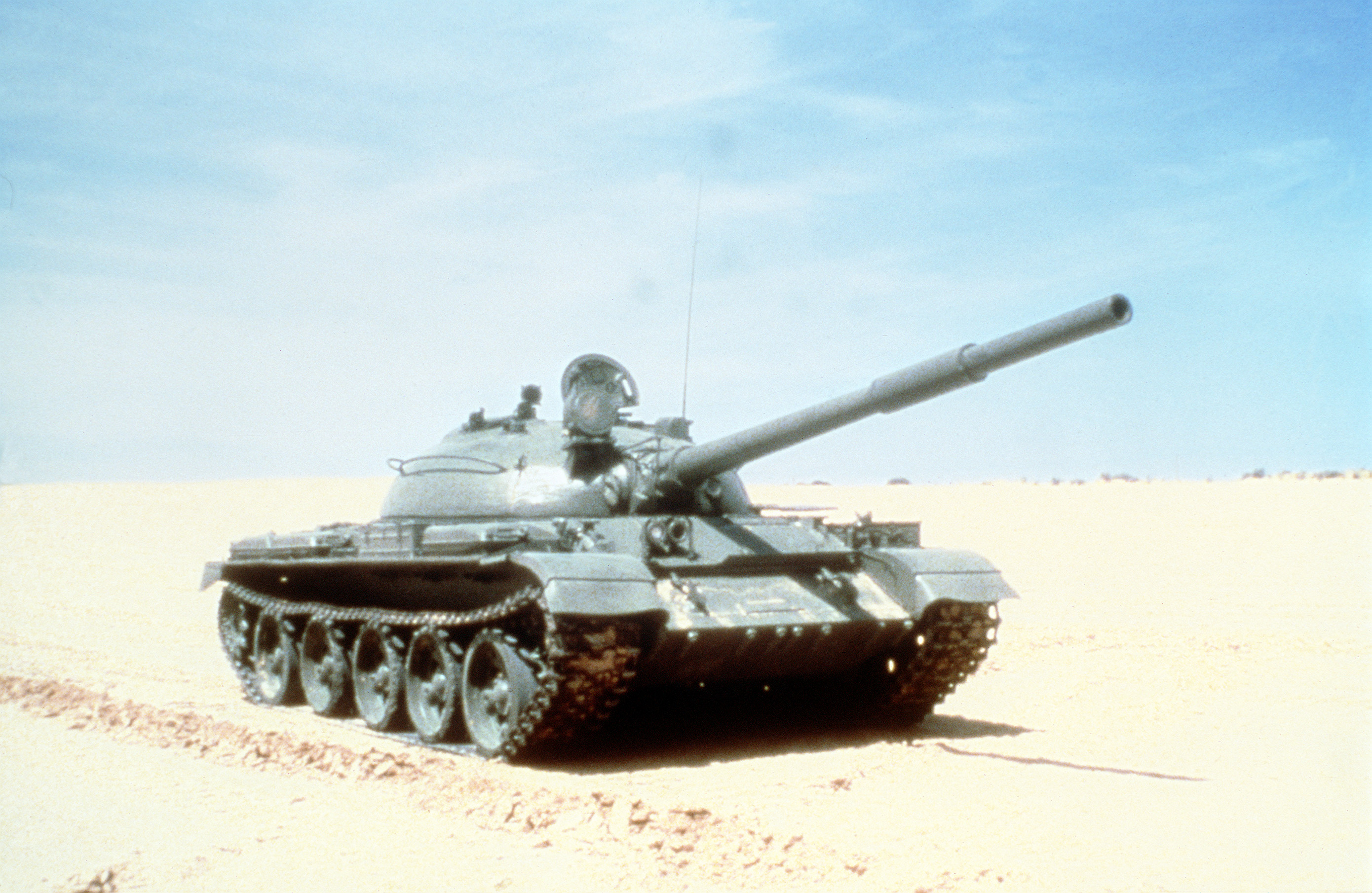 T-62 main battle tank tank at the National Training Center at Fort Irwin.